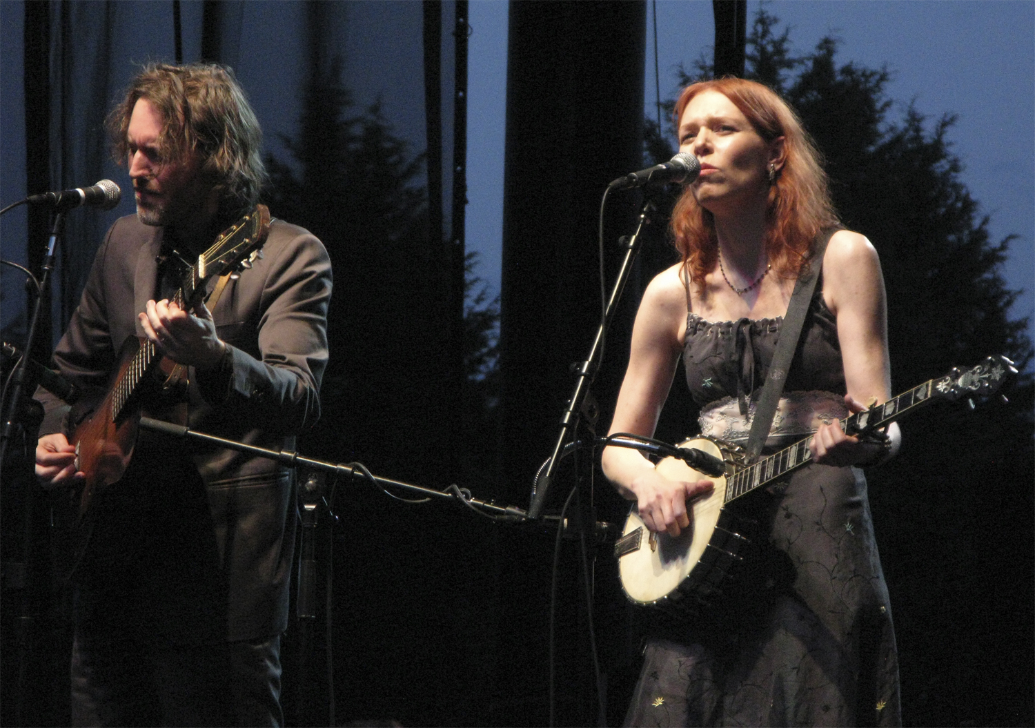 Dave Rawlings and Gillian Welch, Marymoor Park, 11 July 2009